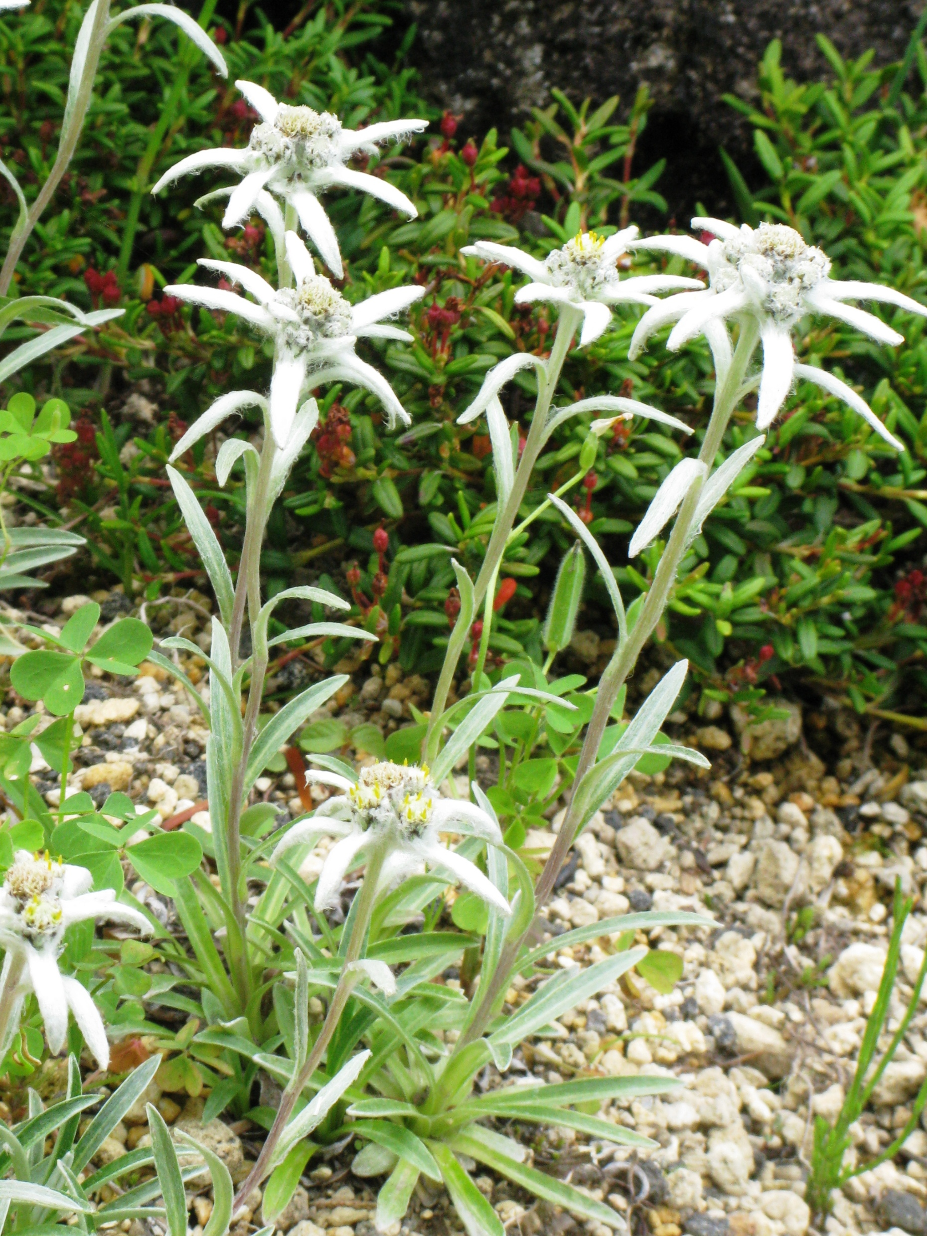 Leontopodium hayachinense, Hakone Botanical Garden of Wetlands, Kanagawa pref., Japan